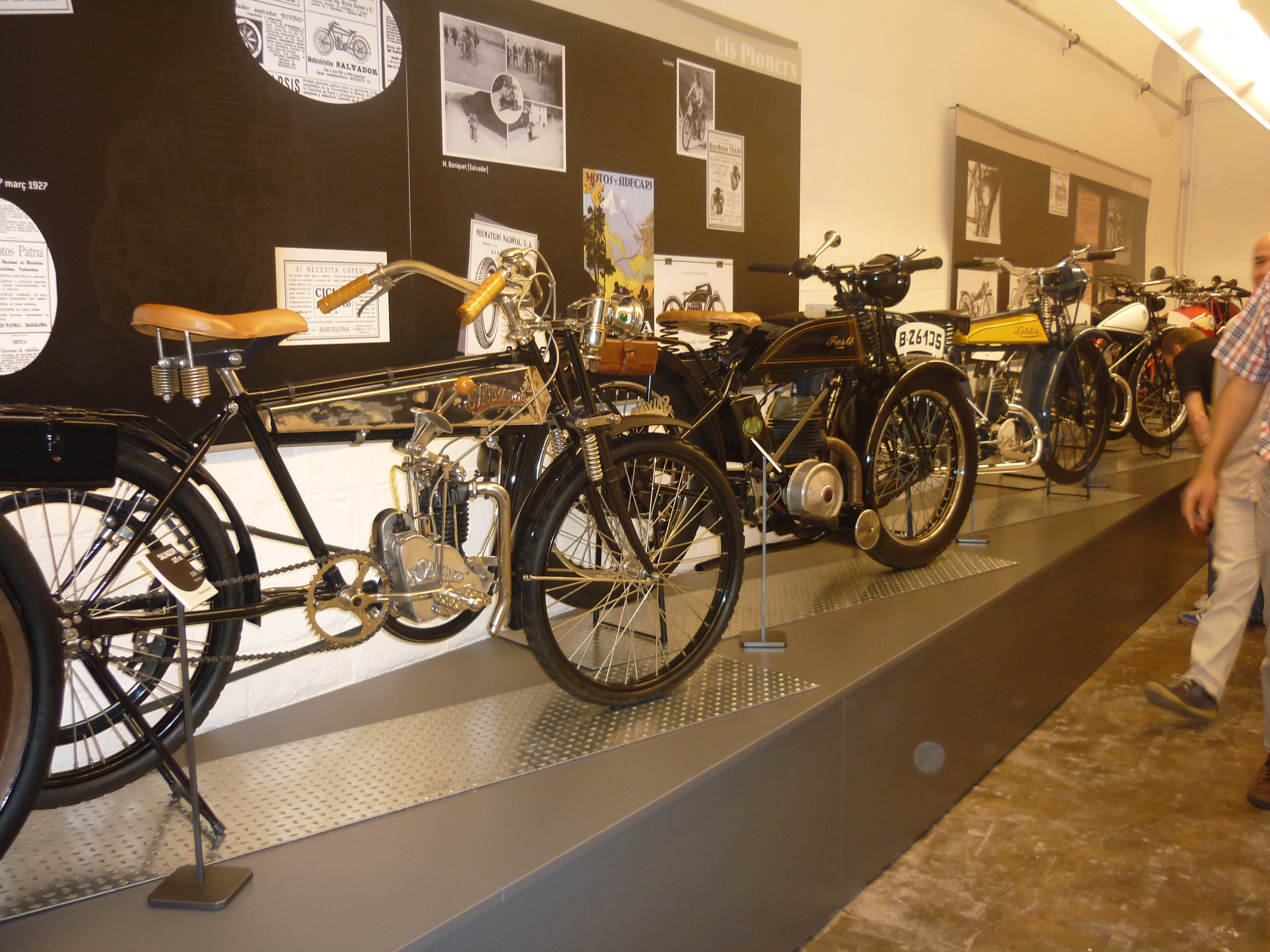 A view of the Museu de la Moto de Barcelona (Catalonia).